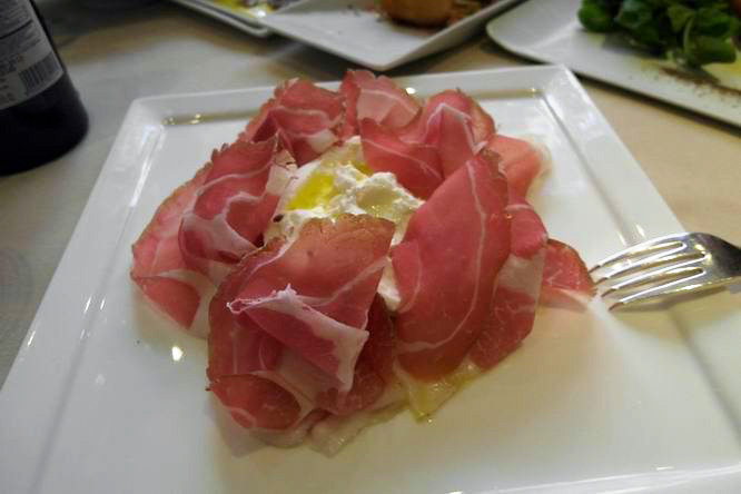 Culatello di Zibello and burrata - Italy.